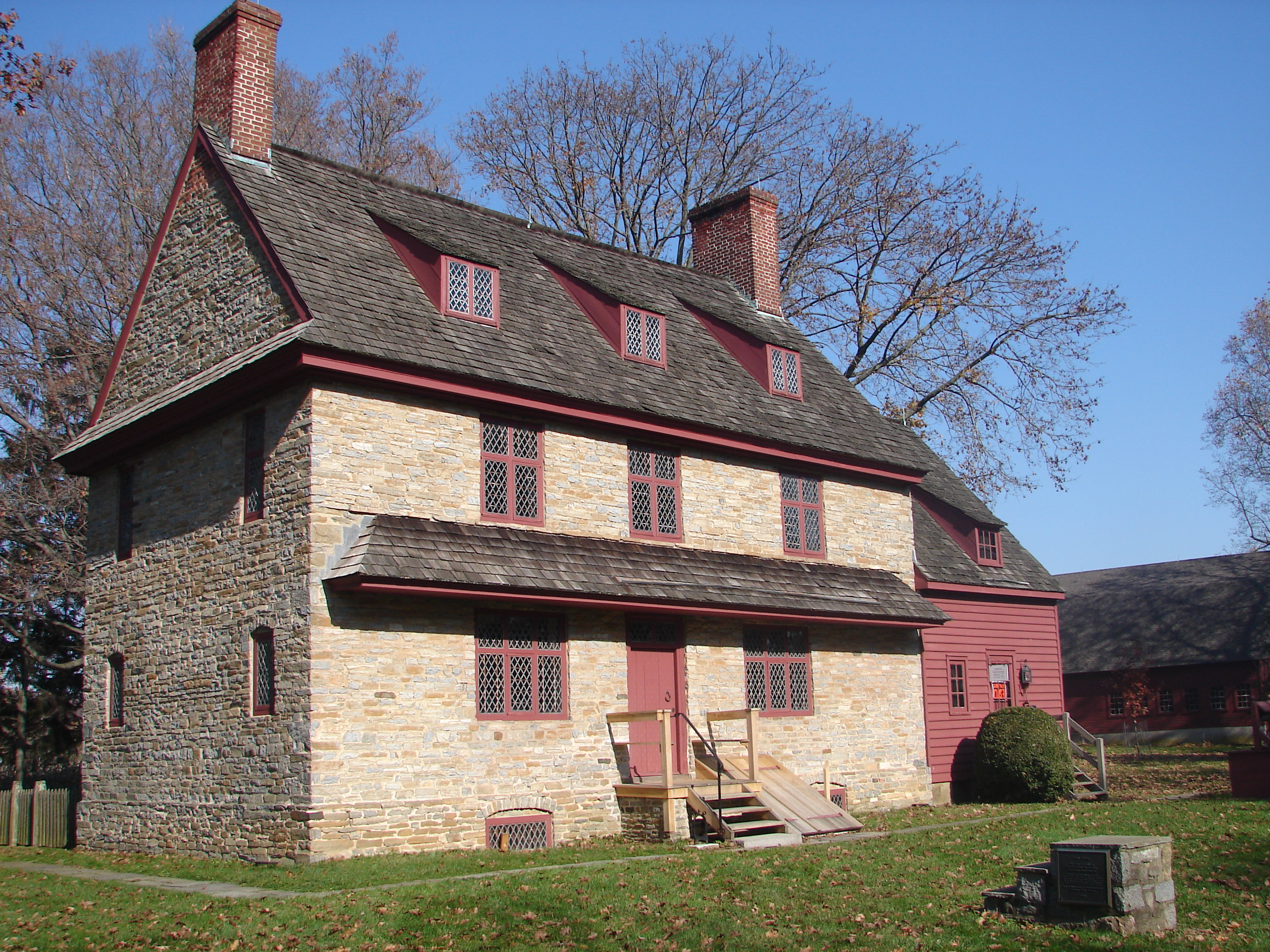 "1704" Building in Delaware County, PA near Dilworthtown. On NRHP.